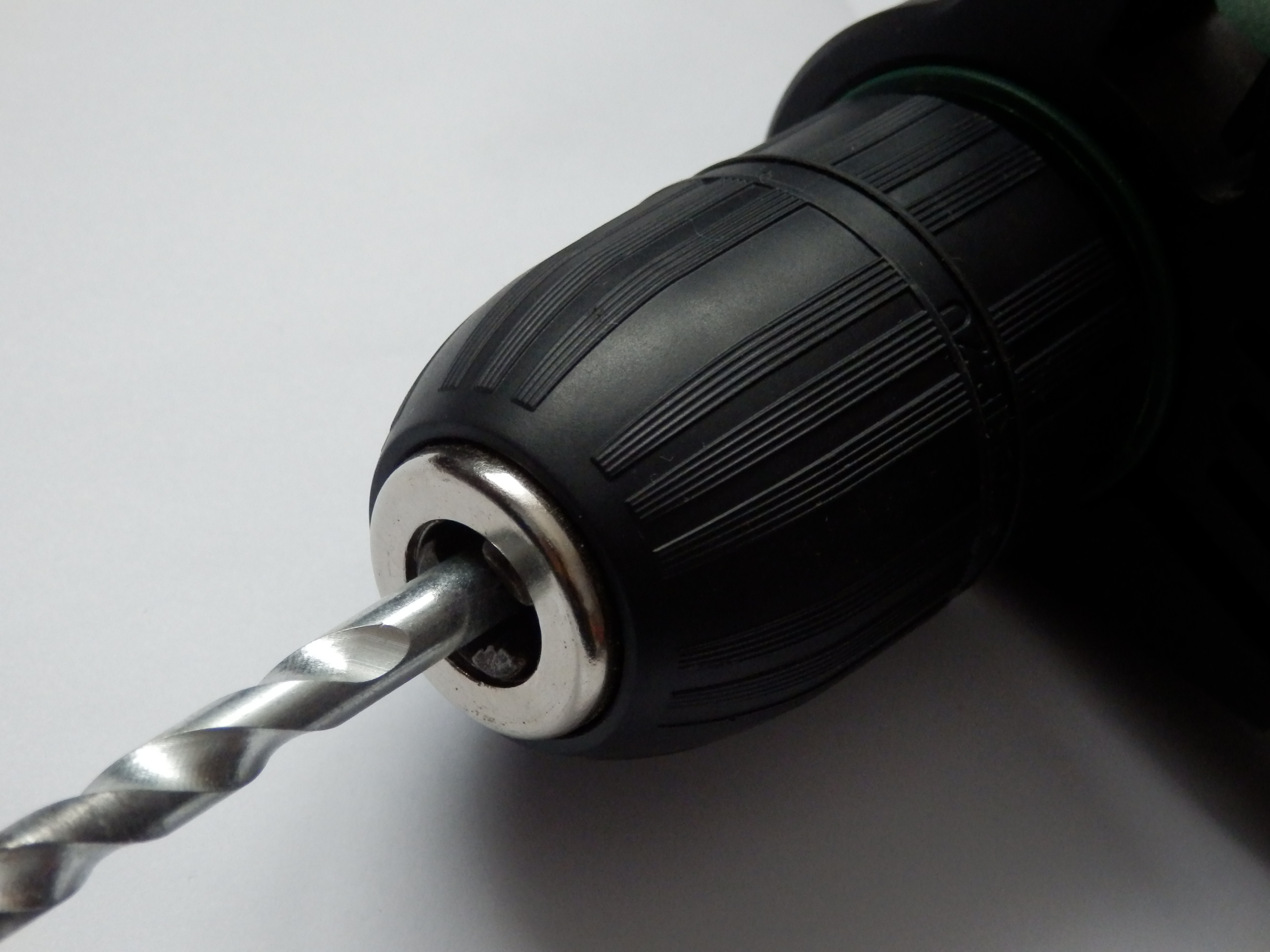 A photo of the keyless drill chuck in Bosch hammer drill